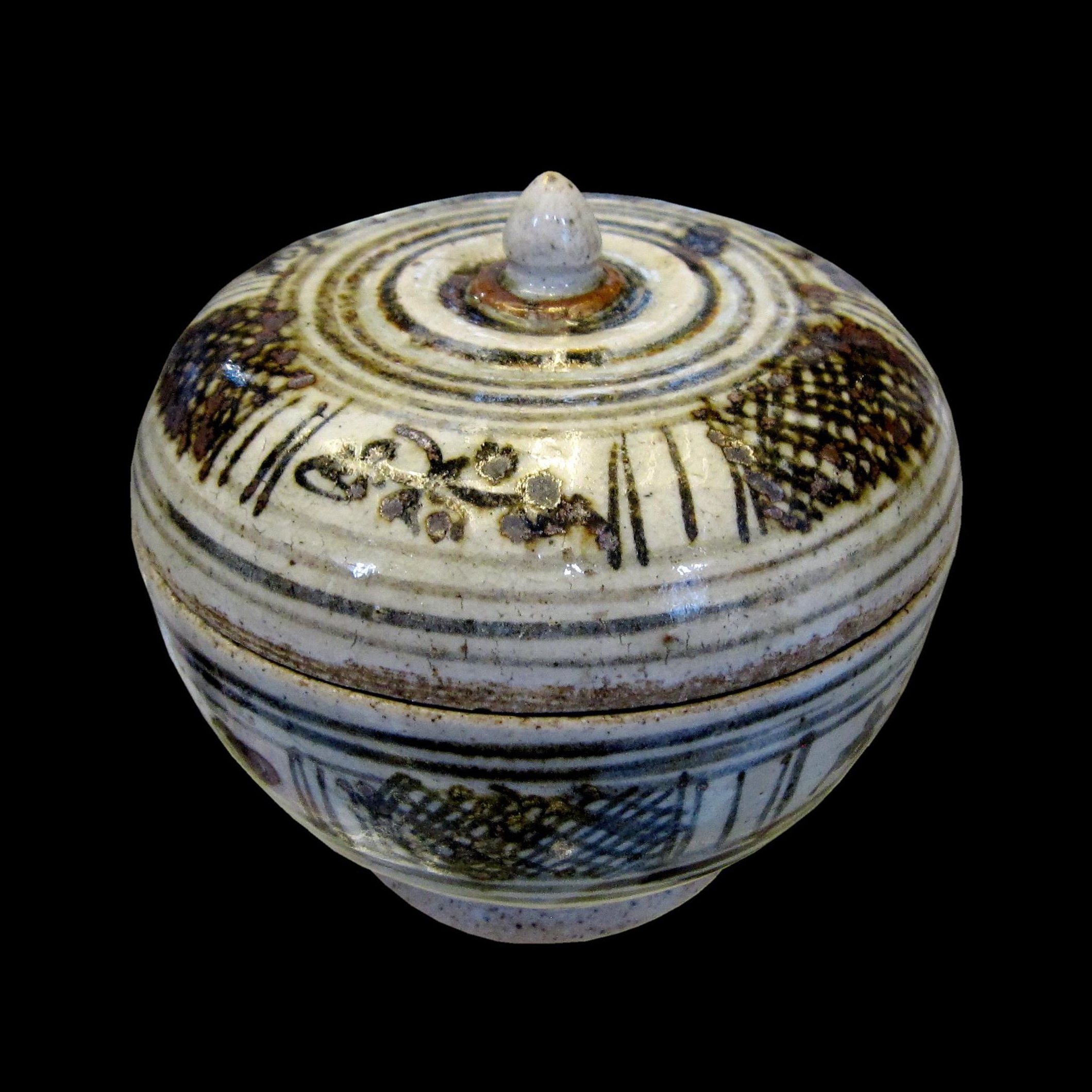 Box with a lid. Sawankalok, northern Thailand. 13th-14th century CE. Given by H. Bergen, Esq. OA 1923.2-12.1. British Museum.